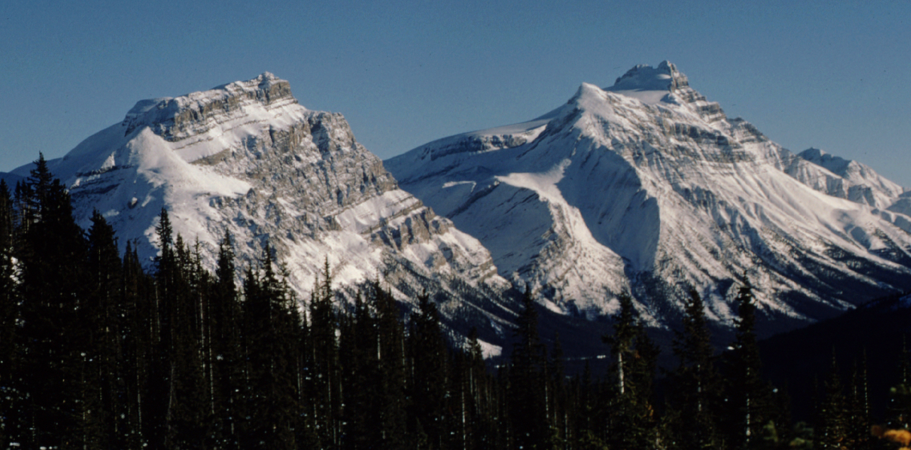 Mount Andromache and Mount Hector in Banff National Park, Canada